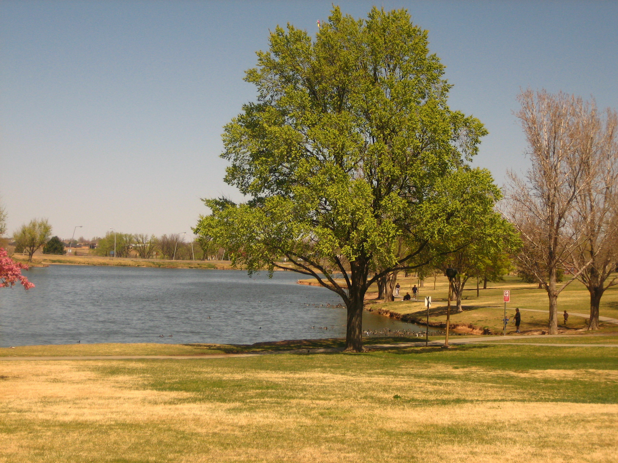 Amarillo Texas: Pond and park adjacent to Amarillo Botanical Gardens.